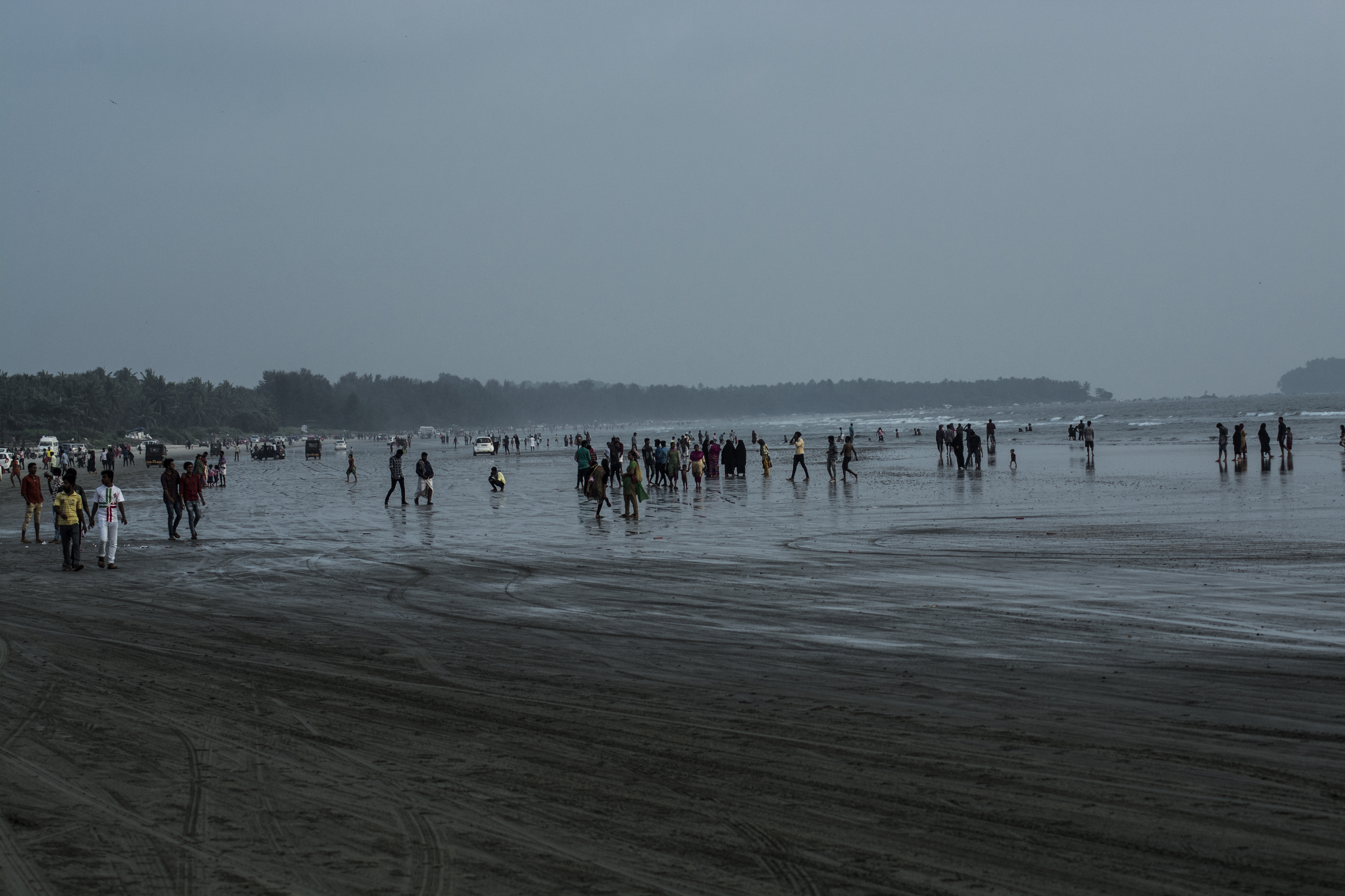 a Sunday evening at muzhappilangad beach